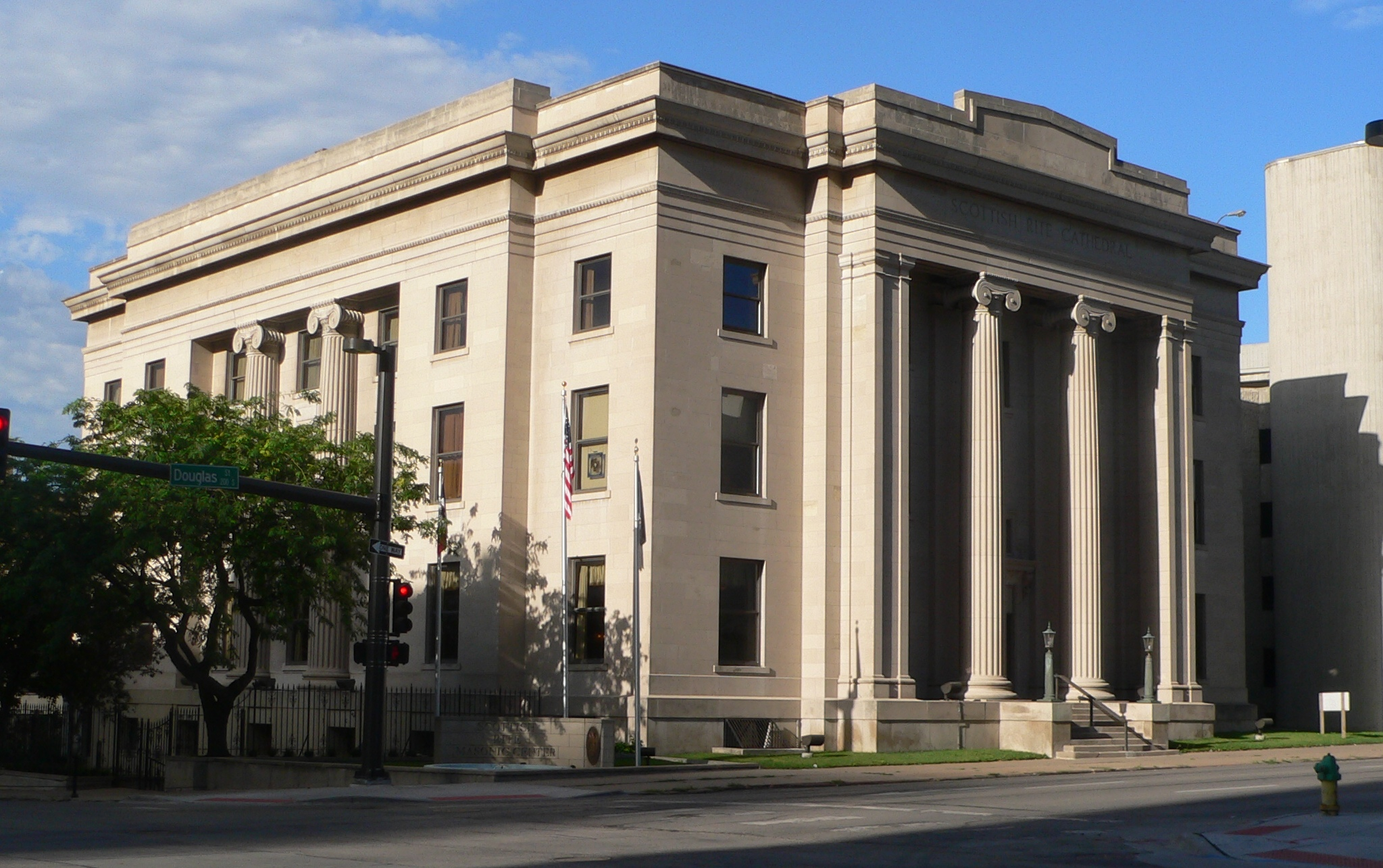 Scottish Rite Cathedral, located at 202 S 20th Street (southwest corner of 20th and Douglas Streets) in Omaha, Nebraska; seen from the northeast. The east side faces 20th; the north side, Douglas.